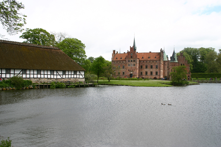 Photo by User:Angelbo taken sept. 2006. Caption: Egeskov Castle exterior view